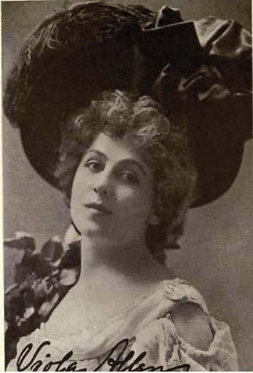 Viola Allen by Hime, New York